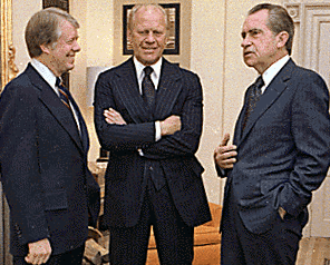 Three presidents-Jimmy Carter, Gerald Ford and Richard Nixon confer during the funeral for former Vice President Hubert Humphrey, January 1978. NLC-WHSP-C-04006-14A is the file number with the Jimmy Carter Library, Atlanta GA